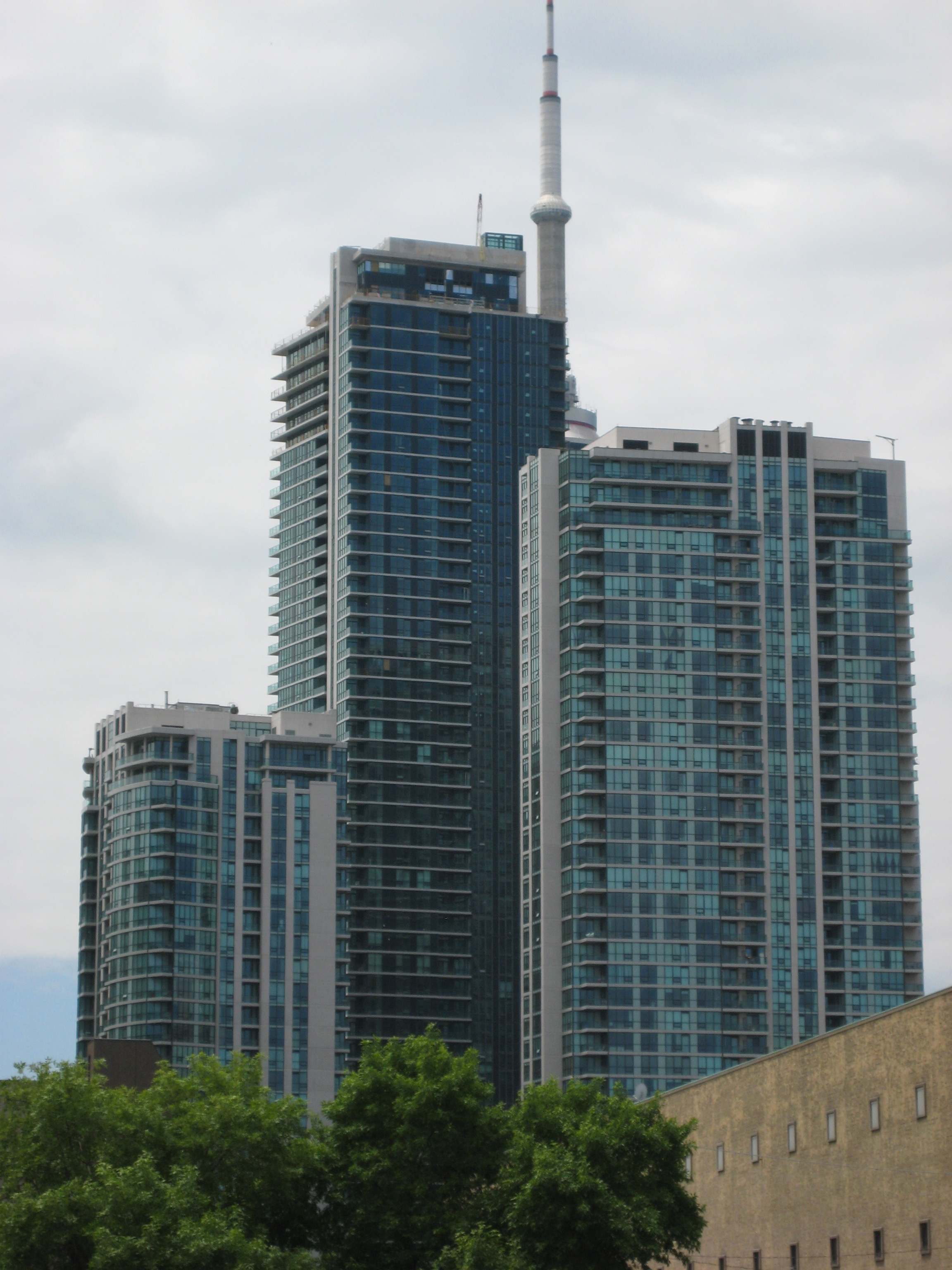 Pinnacle Centre